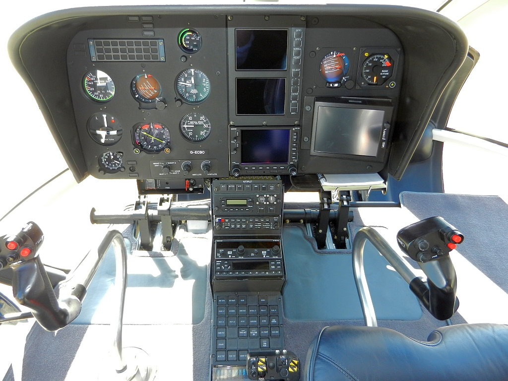 The cockpit of an Eurocopter EC 130.